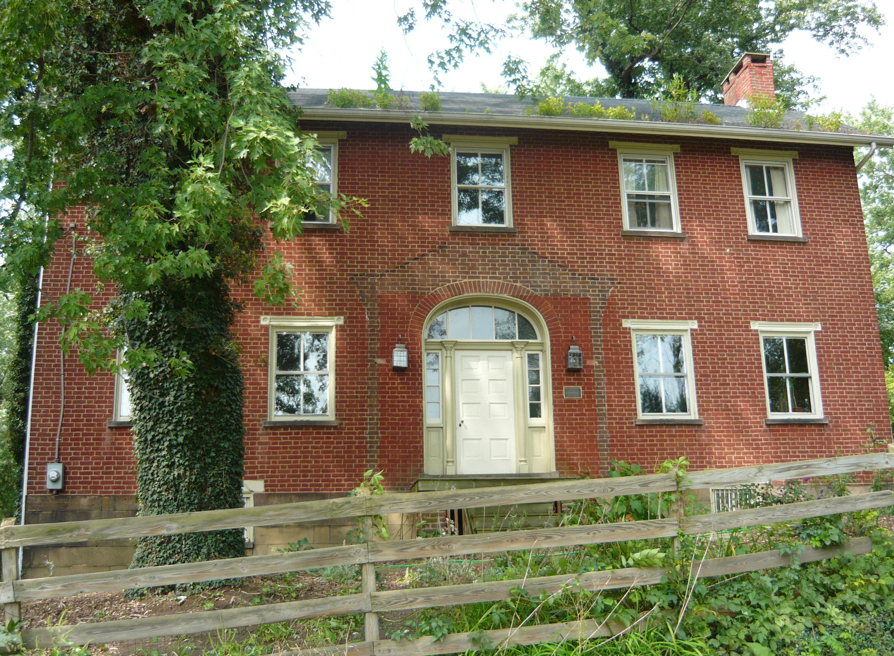 Adam Fisher Homestead, Brinkerton Road, near community of Calumet, Mount Pleasant Township, Westmoreland County, Pennsylvania. Also known as Fisher-Fitch House and Century Farm. Built mid-1800s.